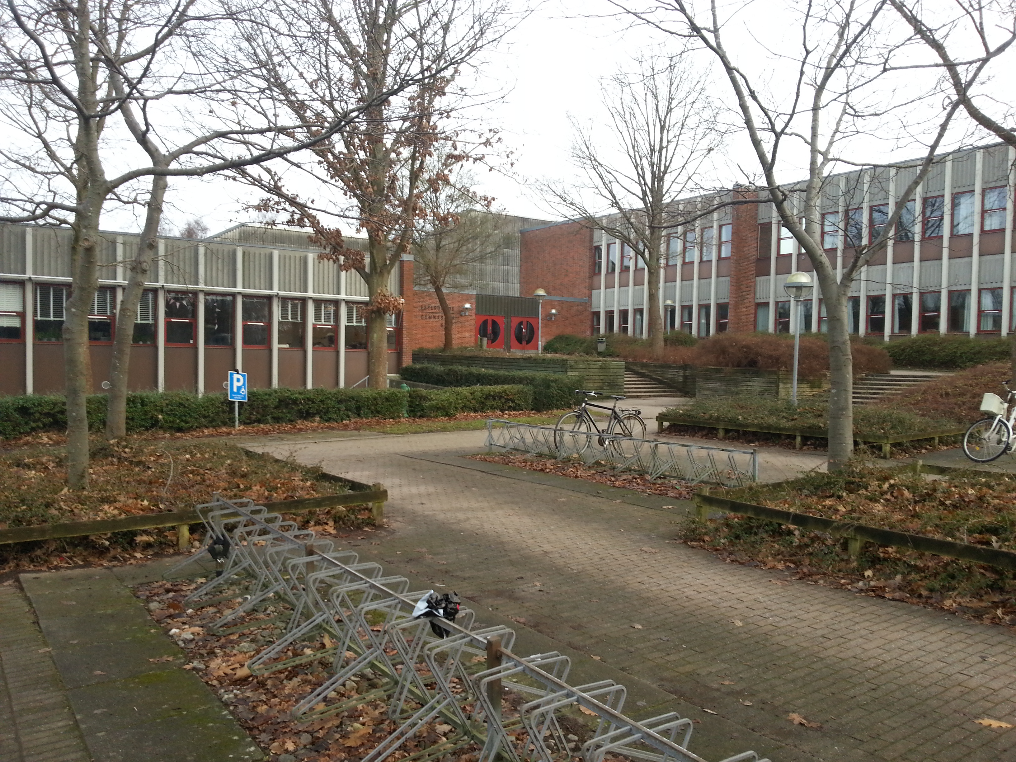 Espergærde Gymnasiums hovedindgang